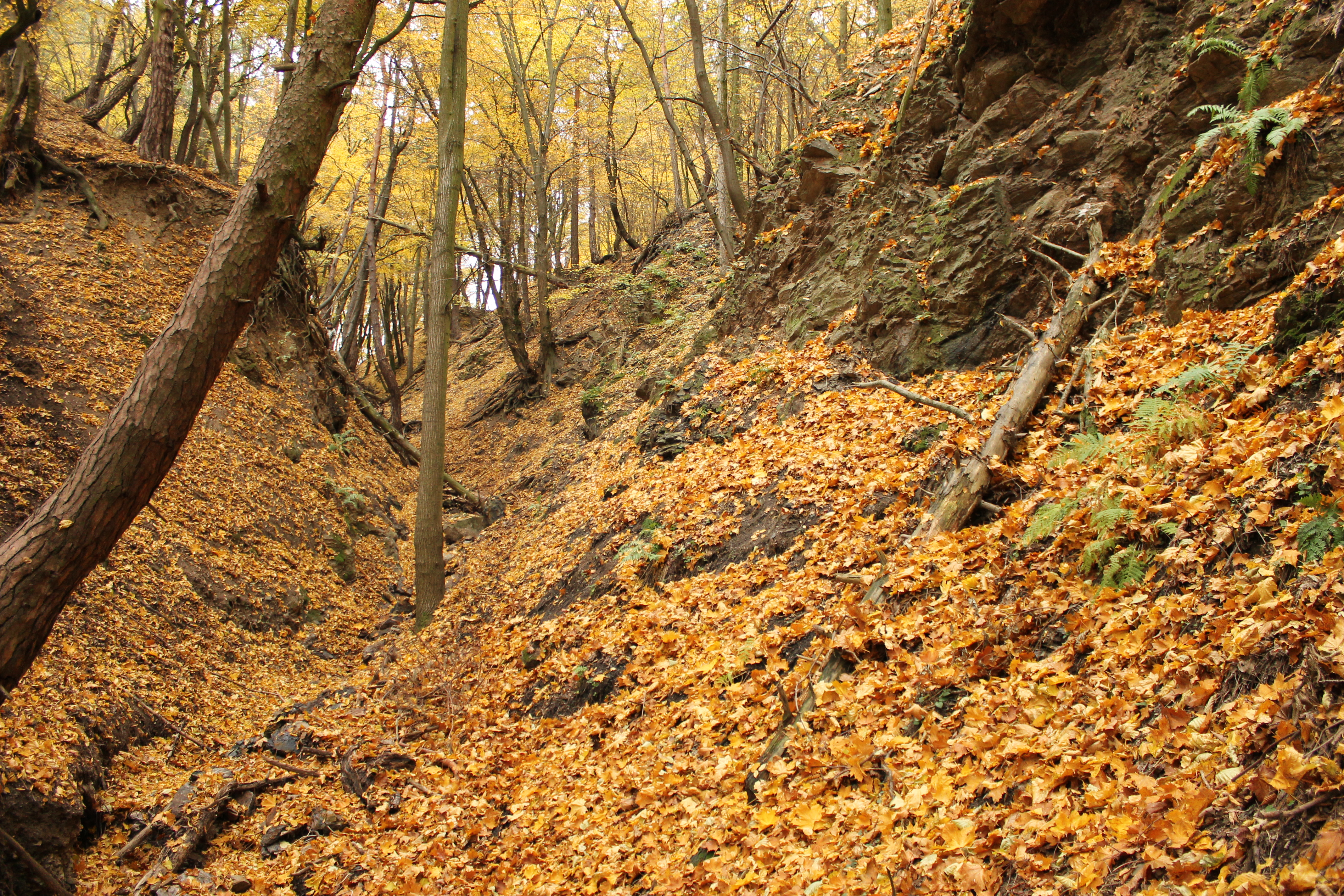 Nature reserve Třímanské skály (Třímany rocks)